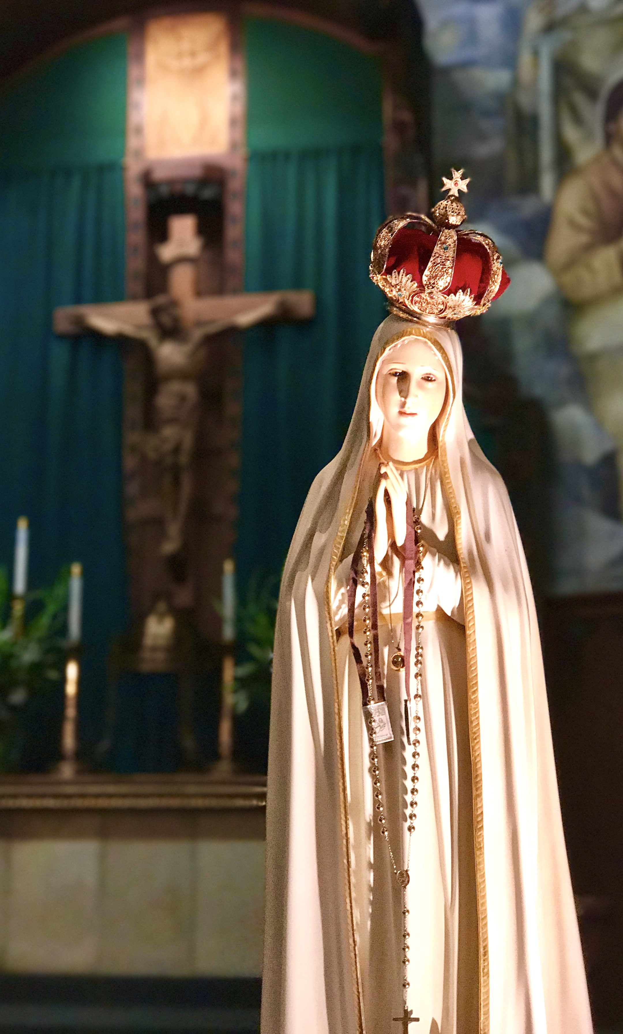 Fatima Mary at Reno Cathedral